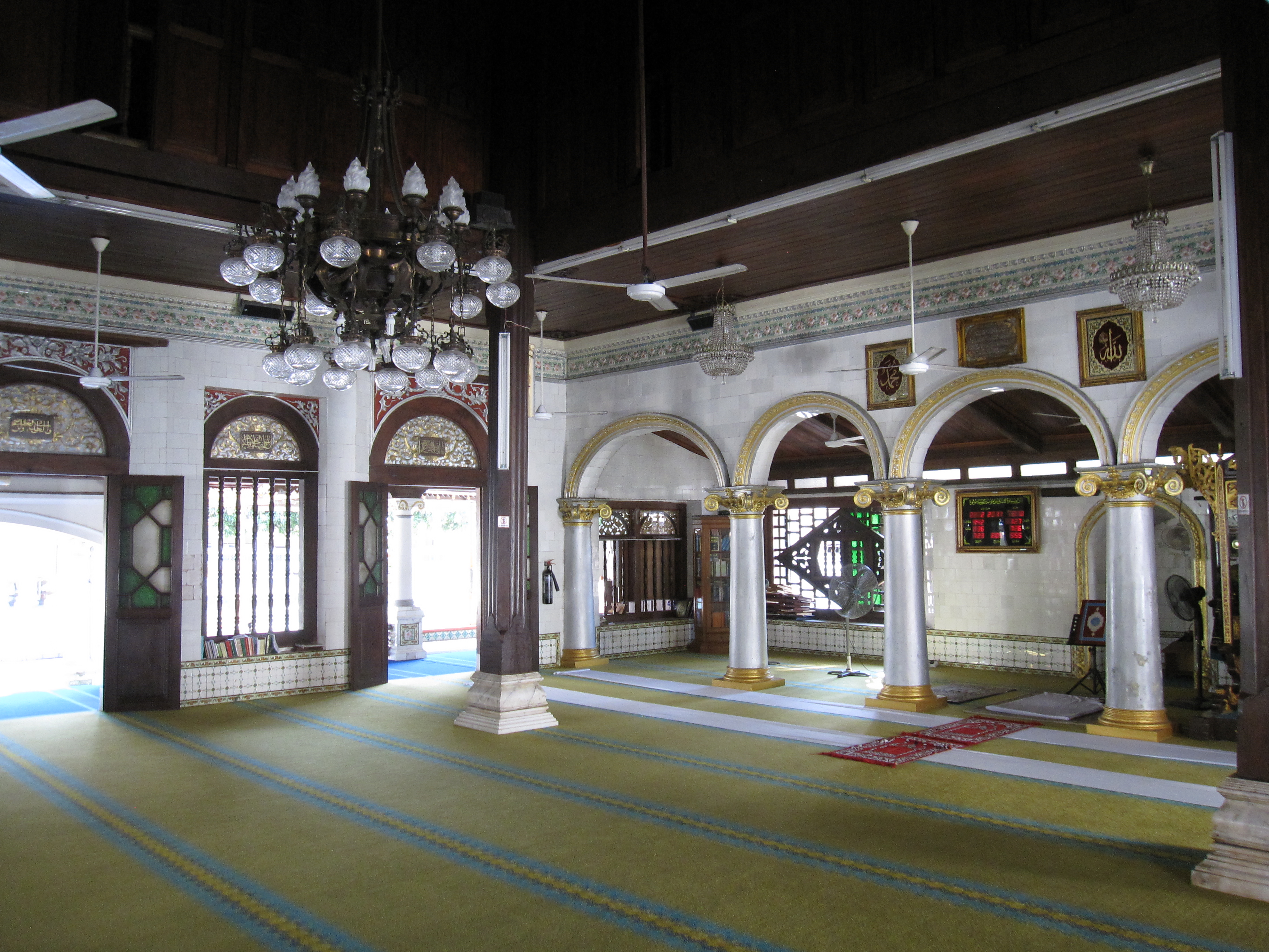 Interior of Kampung Kling Mosque.